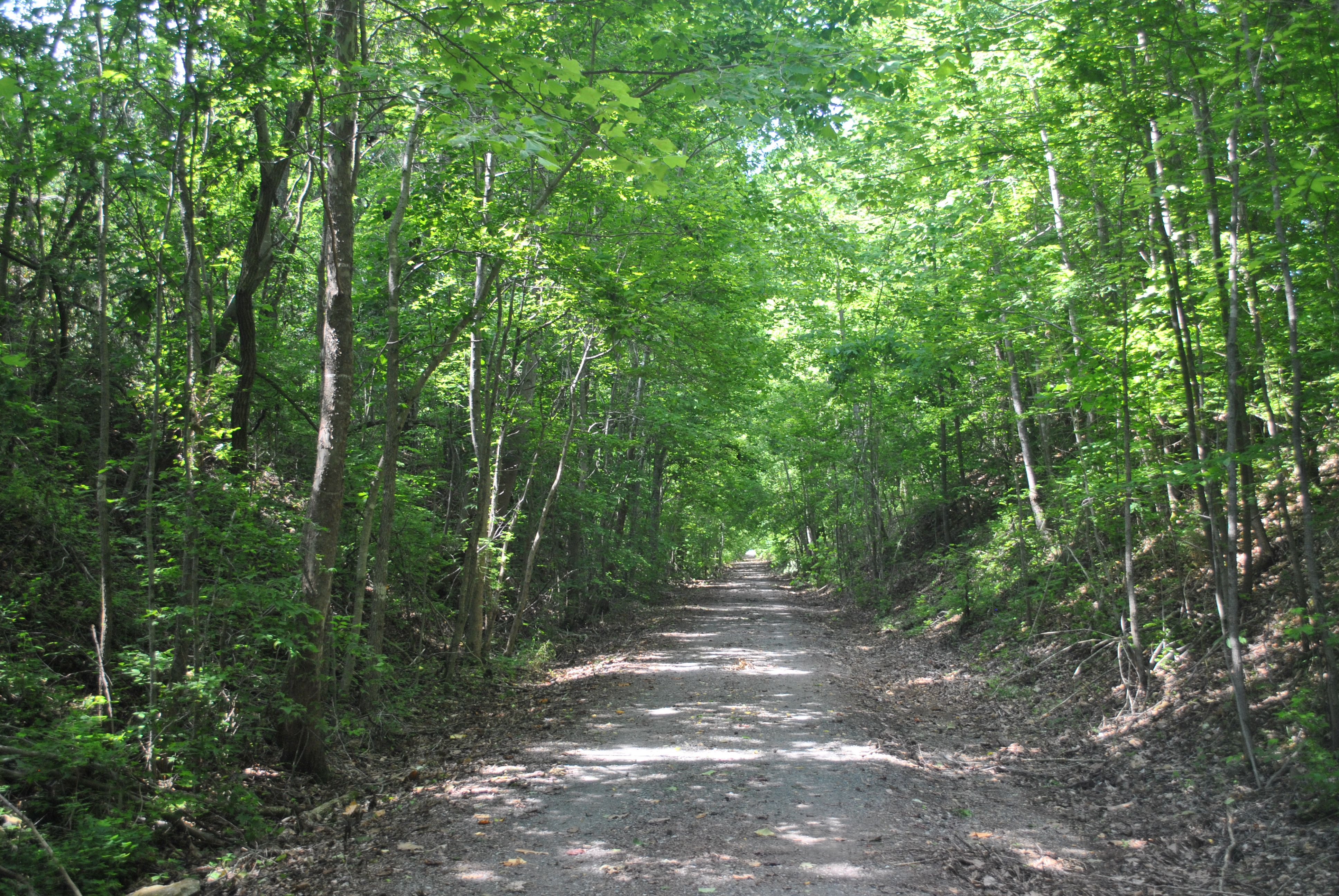 Sulphur Trestle Fort Site, 1 mile (1.6 km) south of Elkmont Elkmont